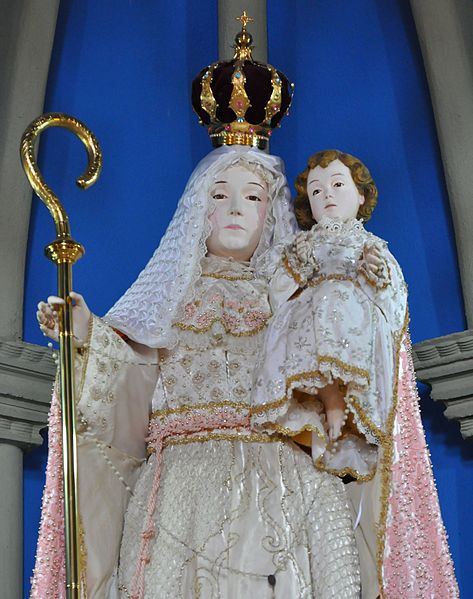 Estatua de Nuestra Señora del Buen Suceso